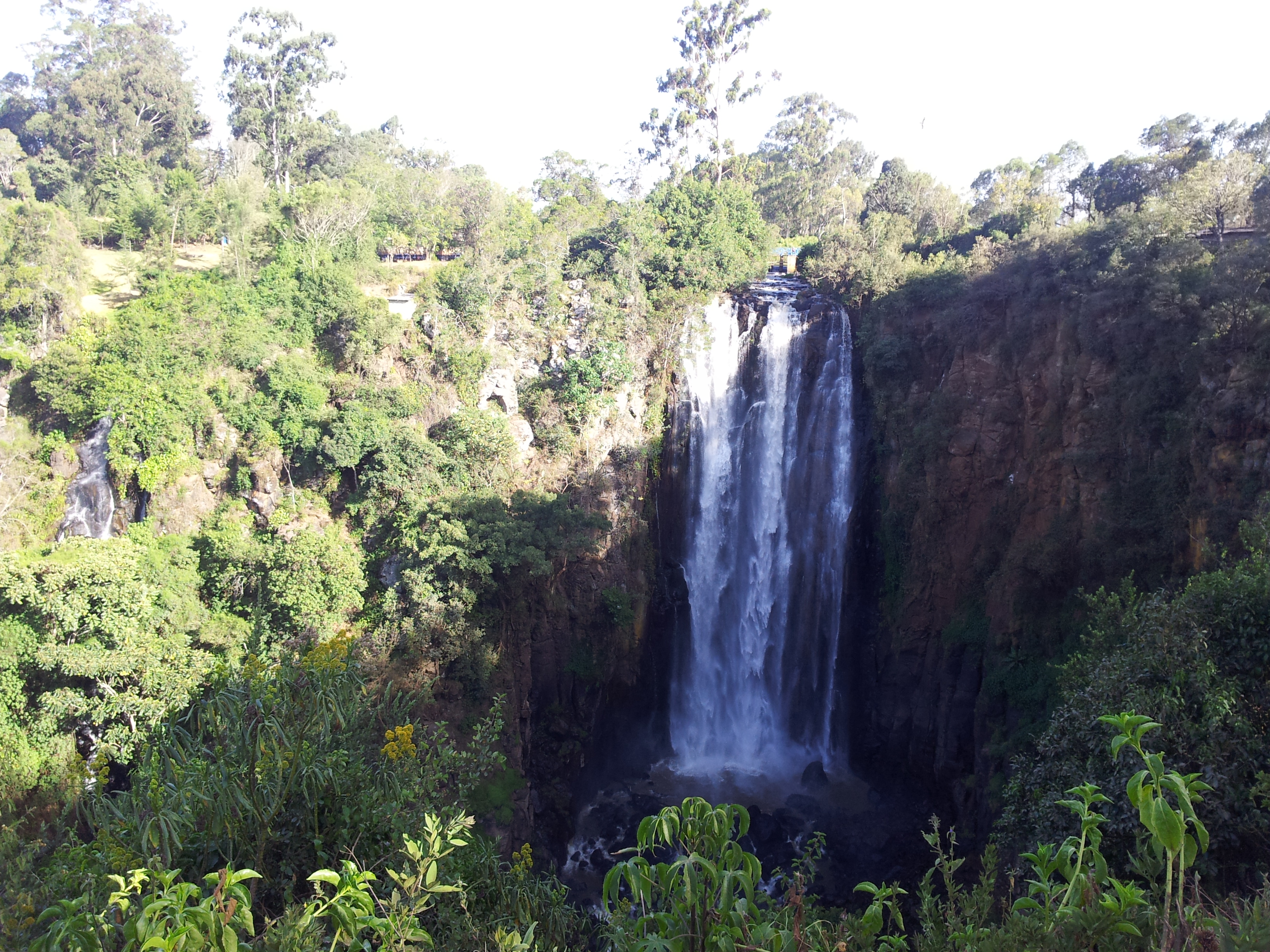 This is a picture of one of Kenya's water falls running from the Aberdare ranges. Thompson's falls is in Nyahururu town, located on the Nyeri-Nyahururu highway.